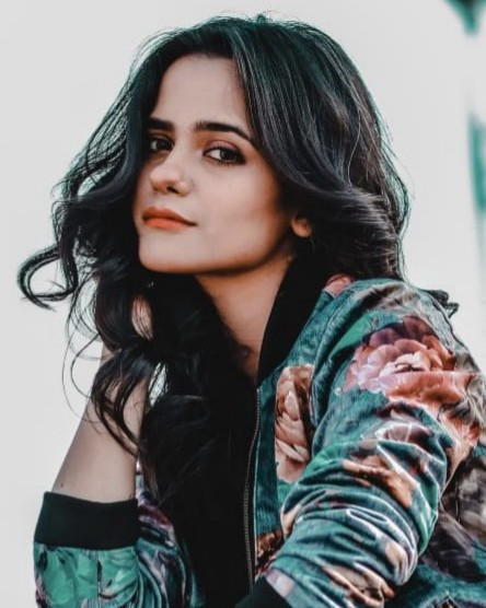 Rabia Kalsoom The Image was shot by me 2020